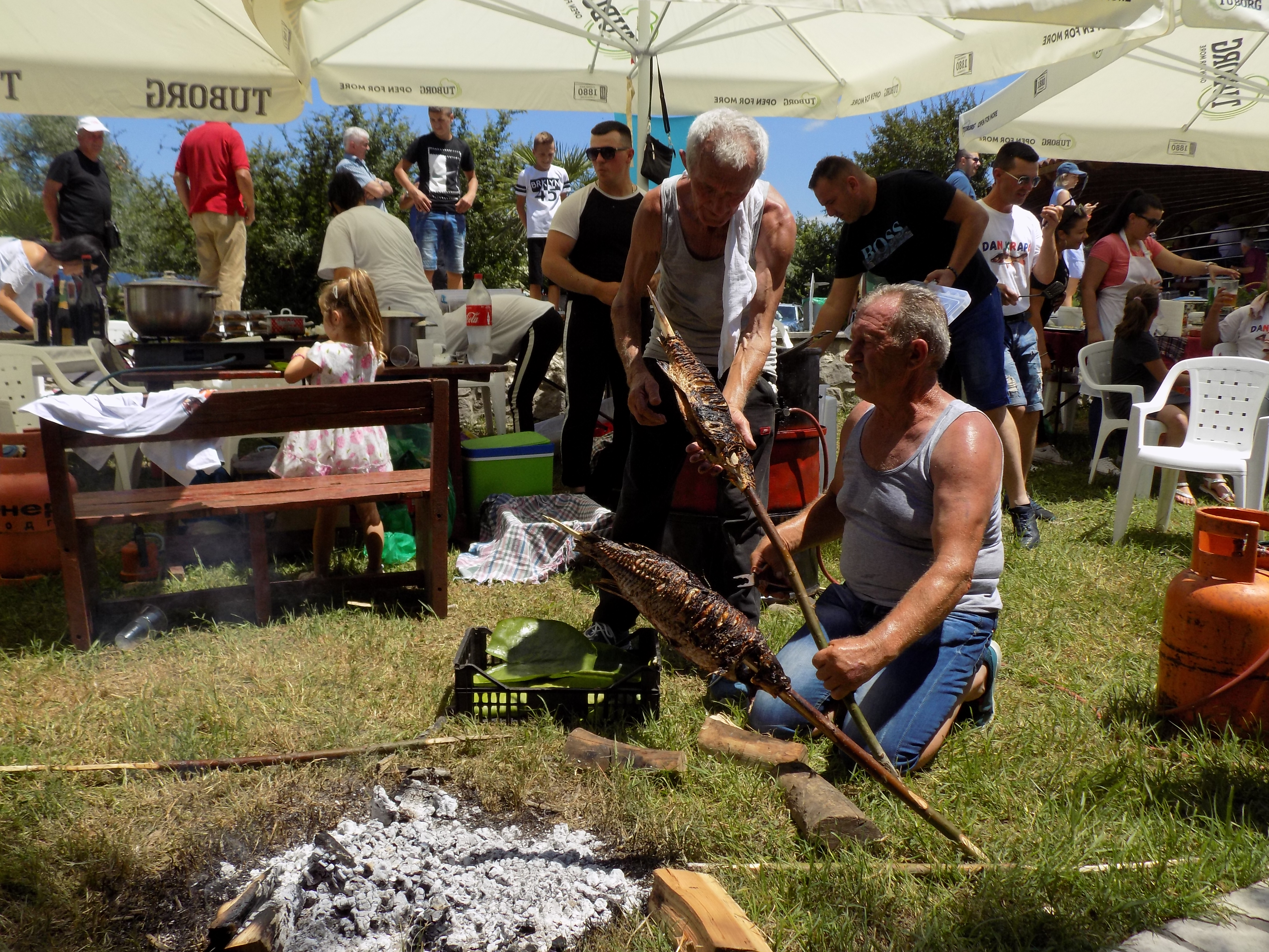 Carp Day in Plavnica, Podgorica, Montenegro